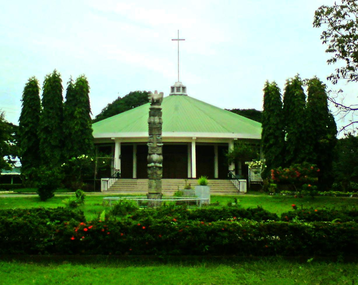 The Salakot Chapel, the most prominent landmark in Union Theological Seminary, Philippines, July 2012.